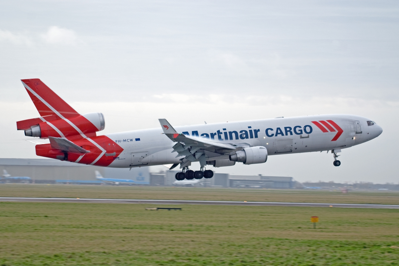 McDonnell Douglas MD-11(F) Amsterdam schiphol EHAM (27-01-2008)